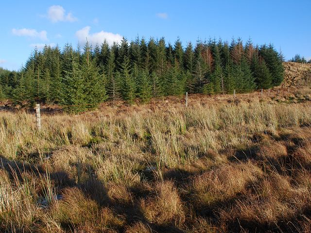 Forest fringe Looking into the forest from the moorland at a point where the forest boundary changes direction.